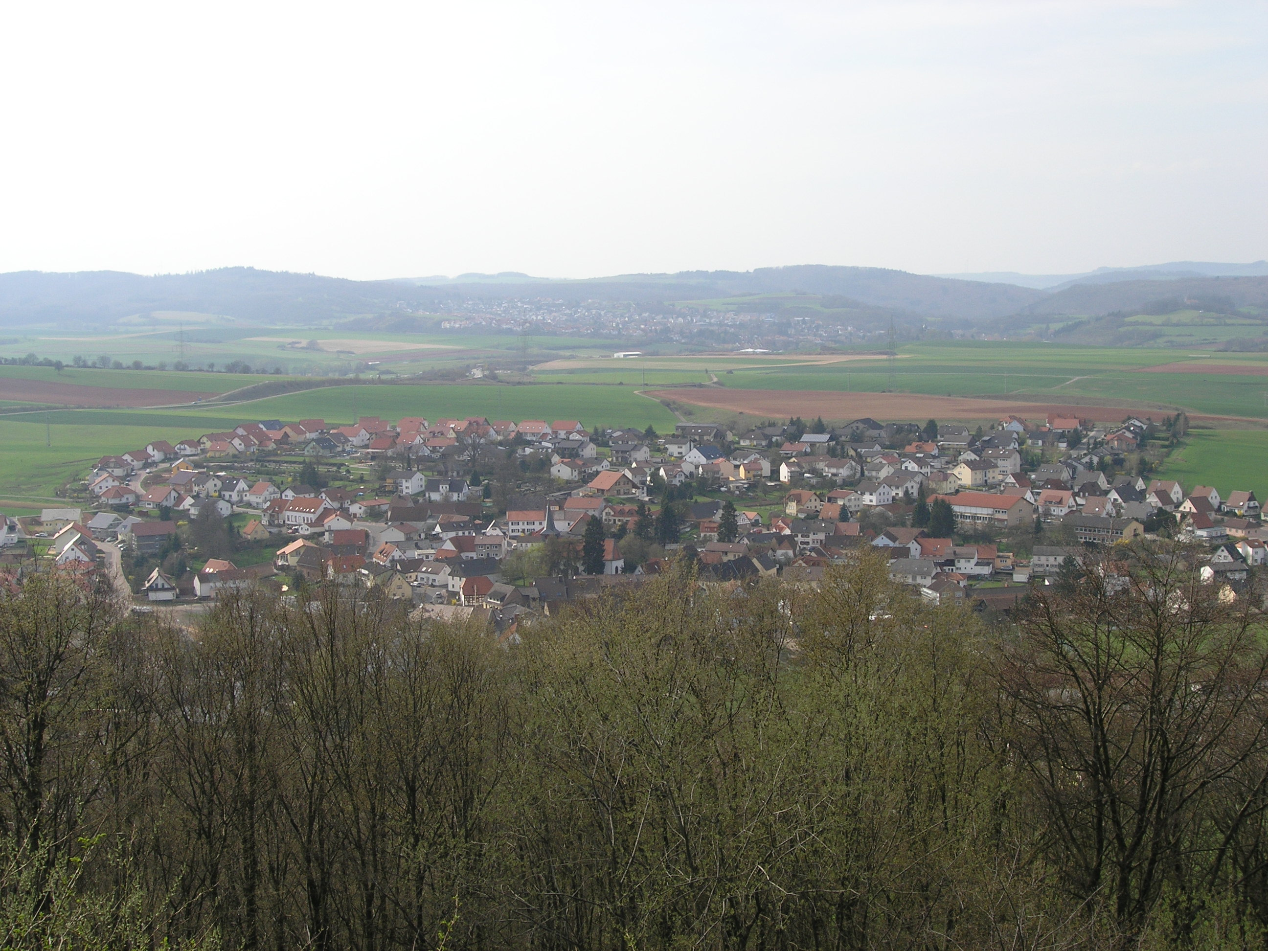 SELBST GEMACHT!!! AUTHOR: flanker_27 Kamera: Olympus C5060WZ Datum: Mittwoch, 19. April 2006